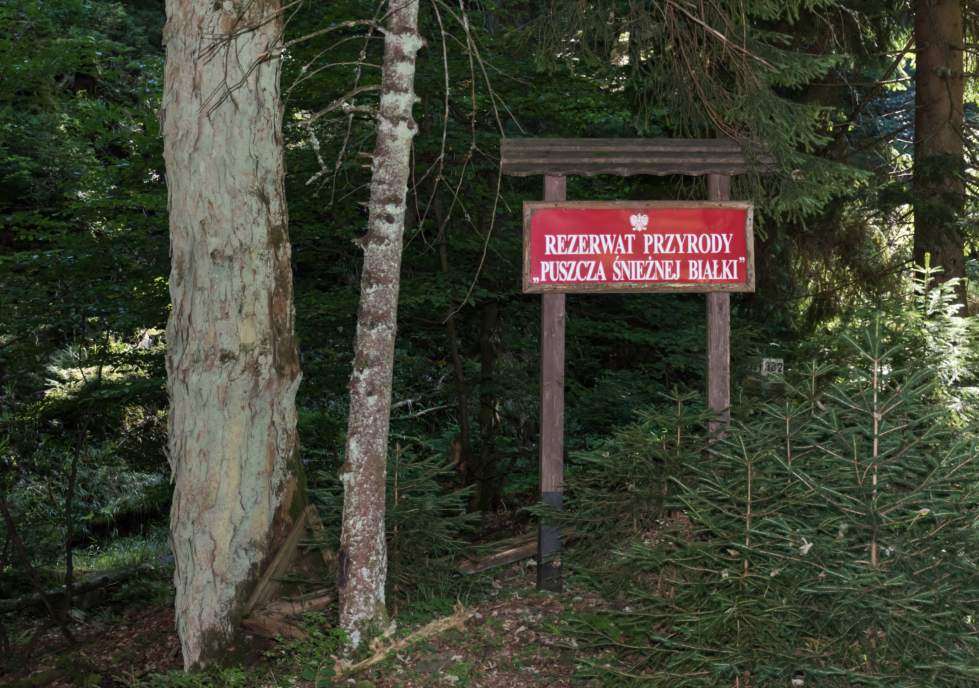 Nature reserve "Puszcza Śnieżnej Białki"